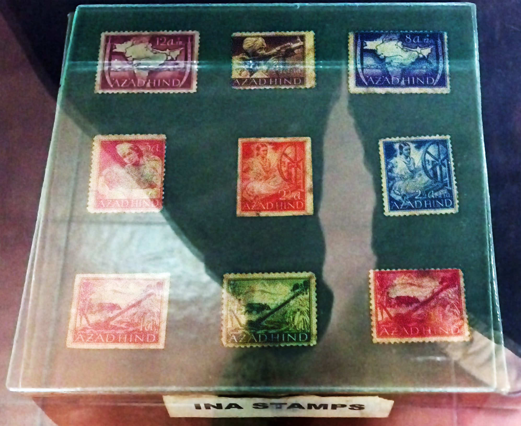 Azad Hind stamps released by Indian National Army in display at Netaji Birth Place Museum, Cuttack, Odisha, India.